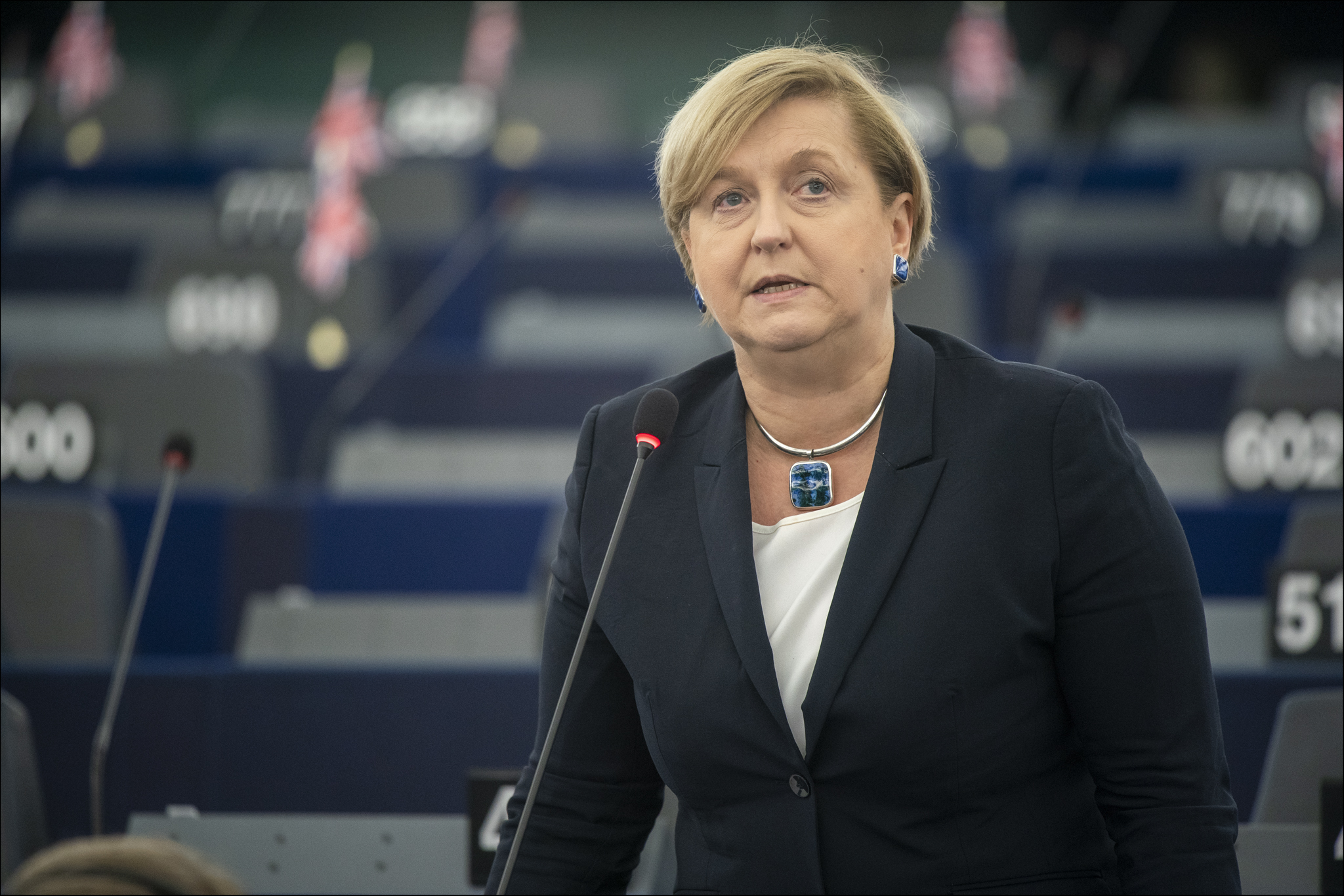 Anna Fotyga during a debate calling for measures against Turkey following military operation in Syria in the European Parliament